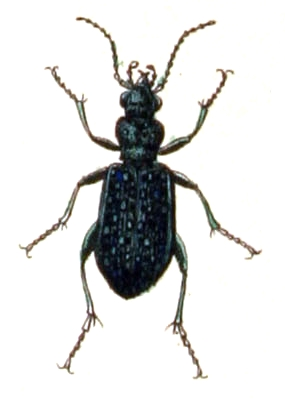 Elaphrus uliginosus, from Calwer's Käferbuch, Table 1, Picture 9. Taxonomy was updated to 2008, using mostly the sites Fauna Europaea and BioLib. Please contact Sarefo if the determination is wrong!